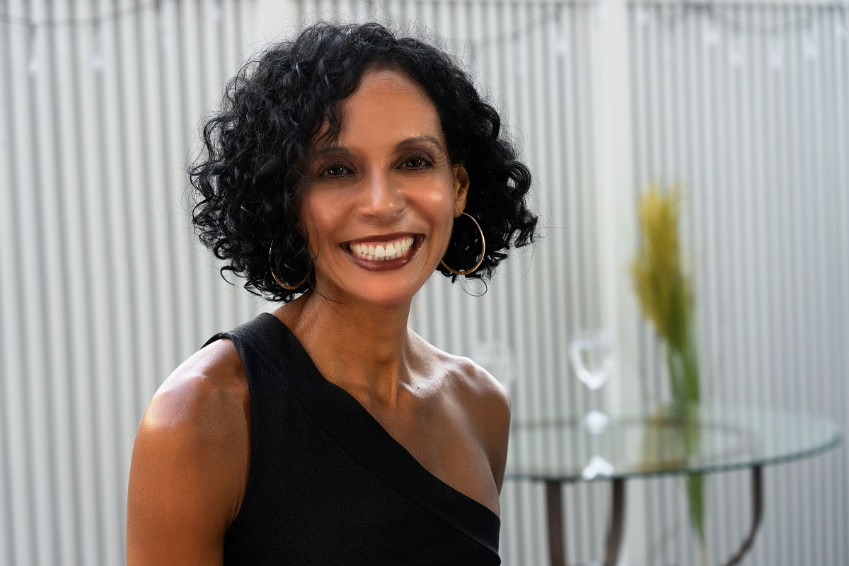 Photo of Jennifer Jones, Rockette, 2018.